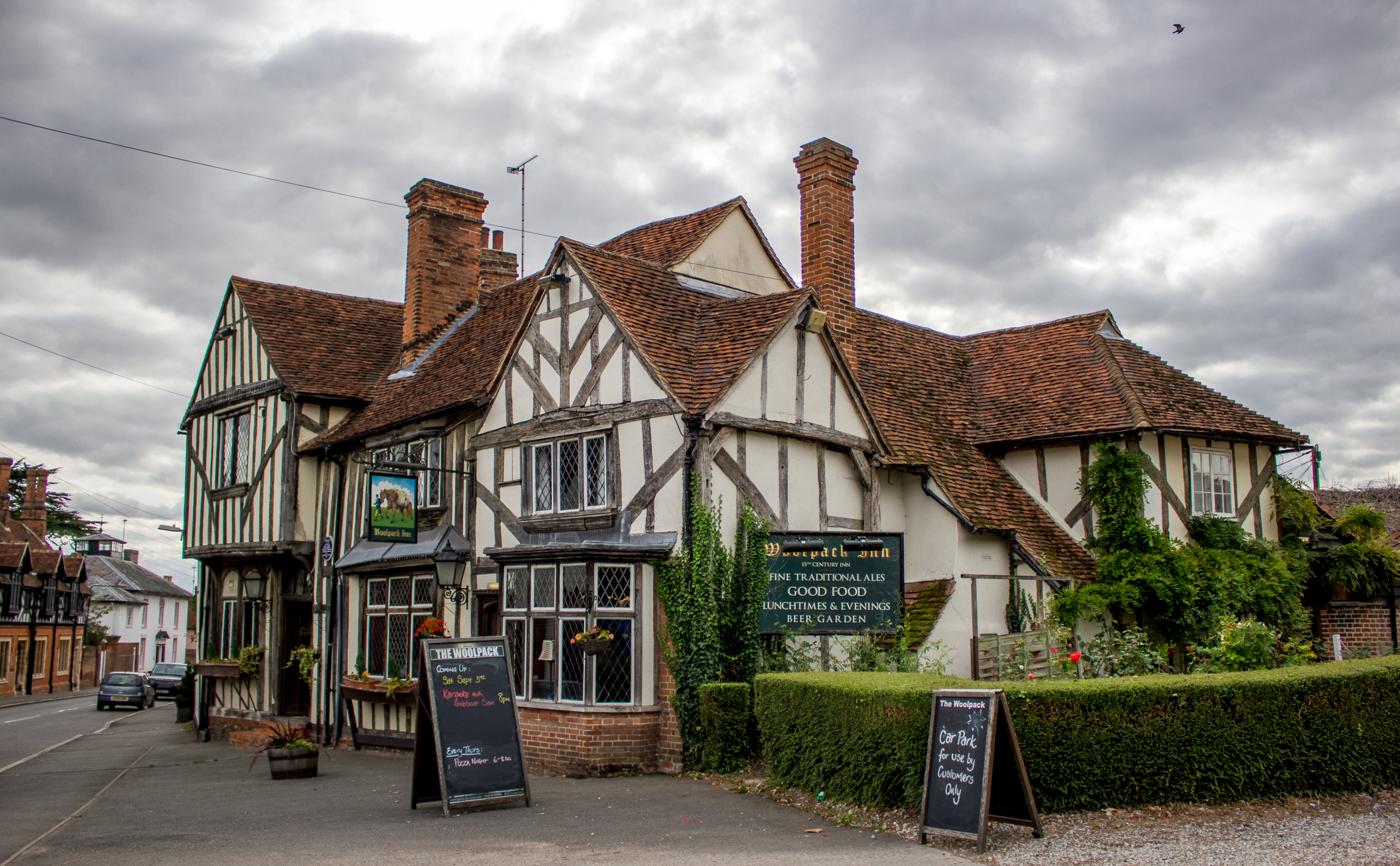 The Woolpack Inn, Coggeshall, United Kingdom